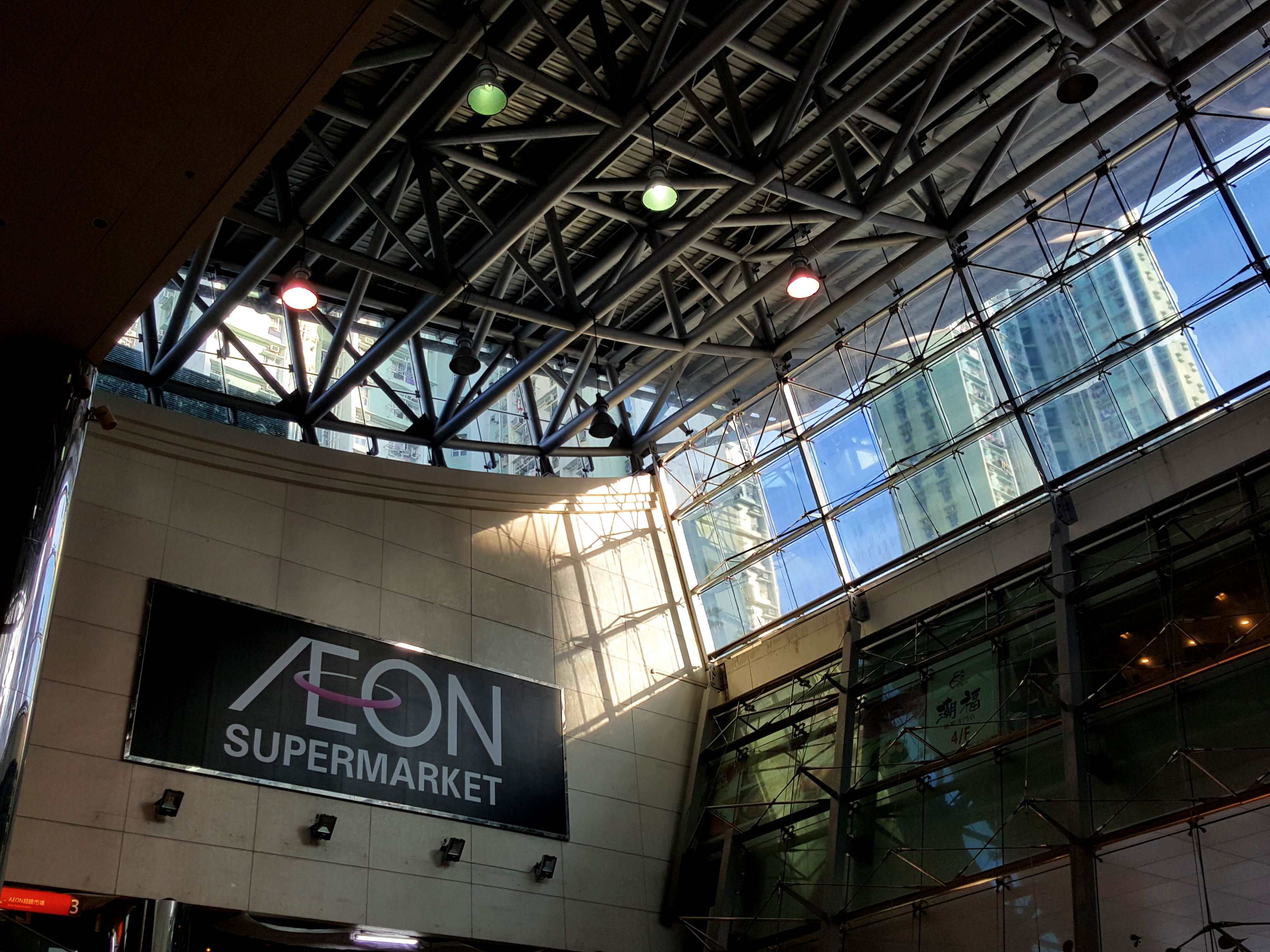 Kai Tin Shopping Centre old wing in Lam Tin, Hong Kong